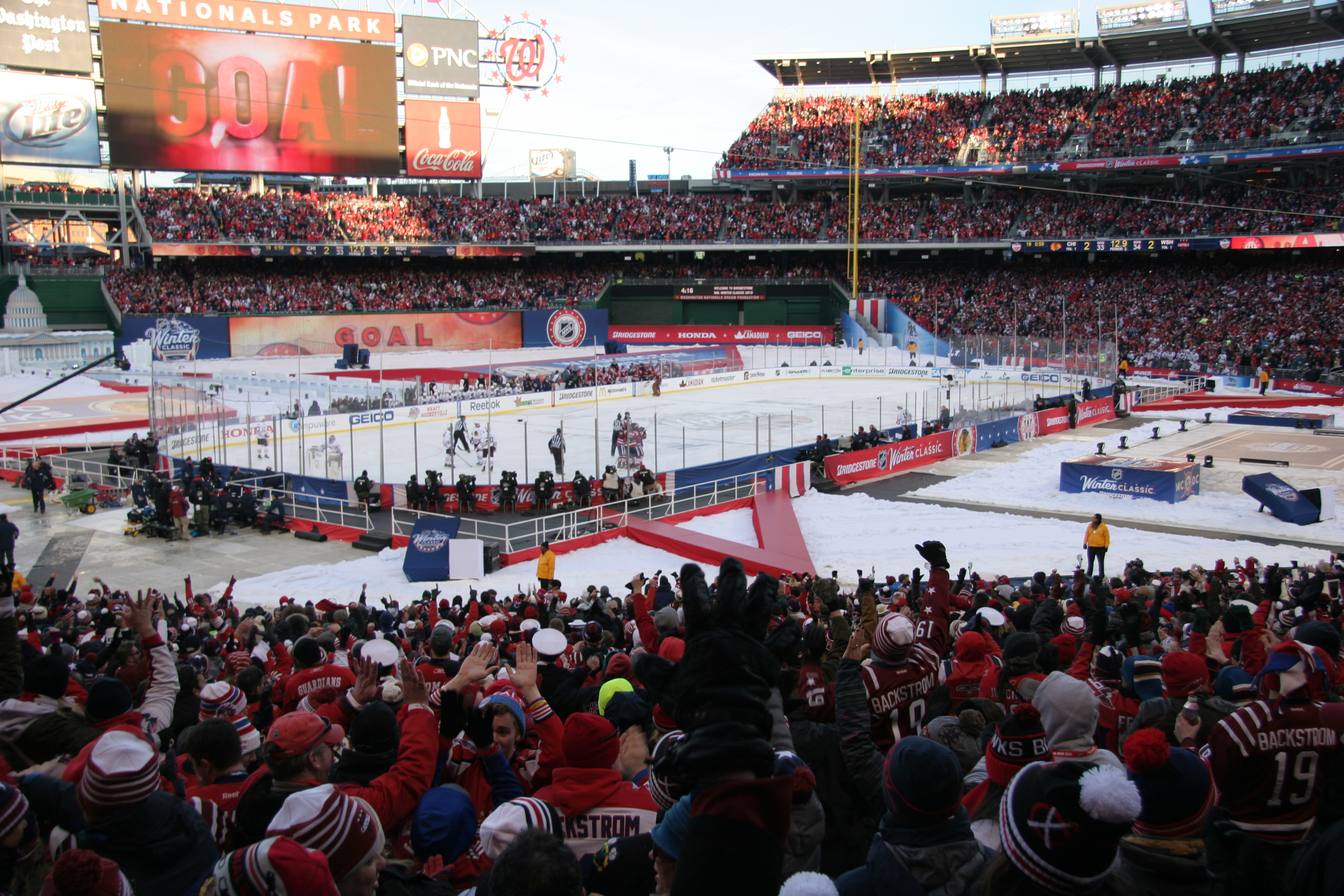 Troy Brouwer just scored the game-winning goal at the 2015 NHL Winter Classic. Capitals players and fans celebrate.